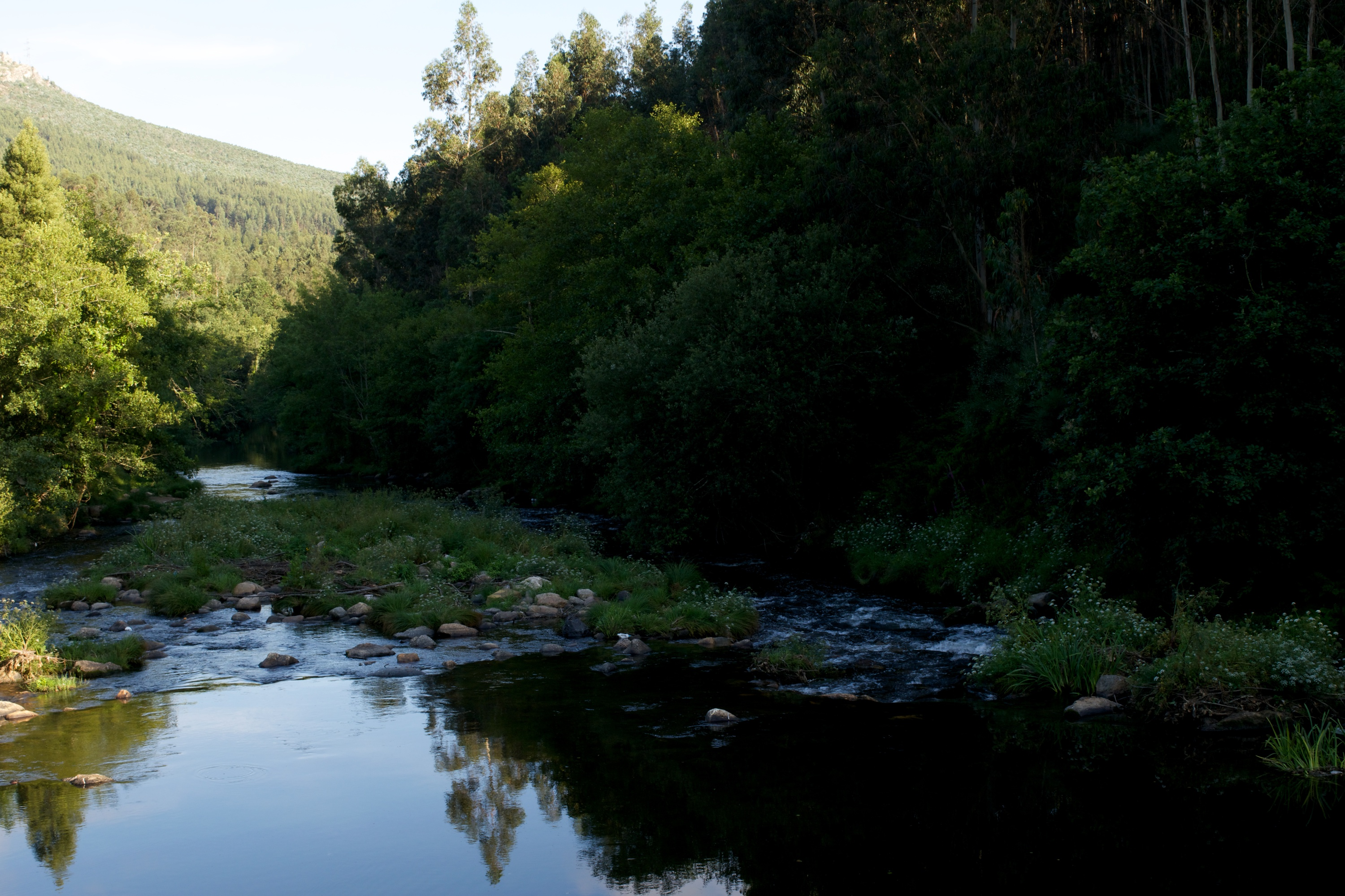 This is a photography of a Site of Community Importance in Portugal with the ID: PTCON0024. Natura2000 entry, EEA entry